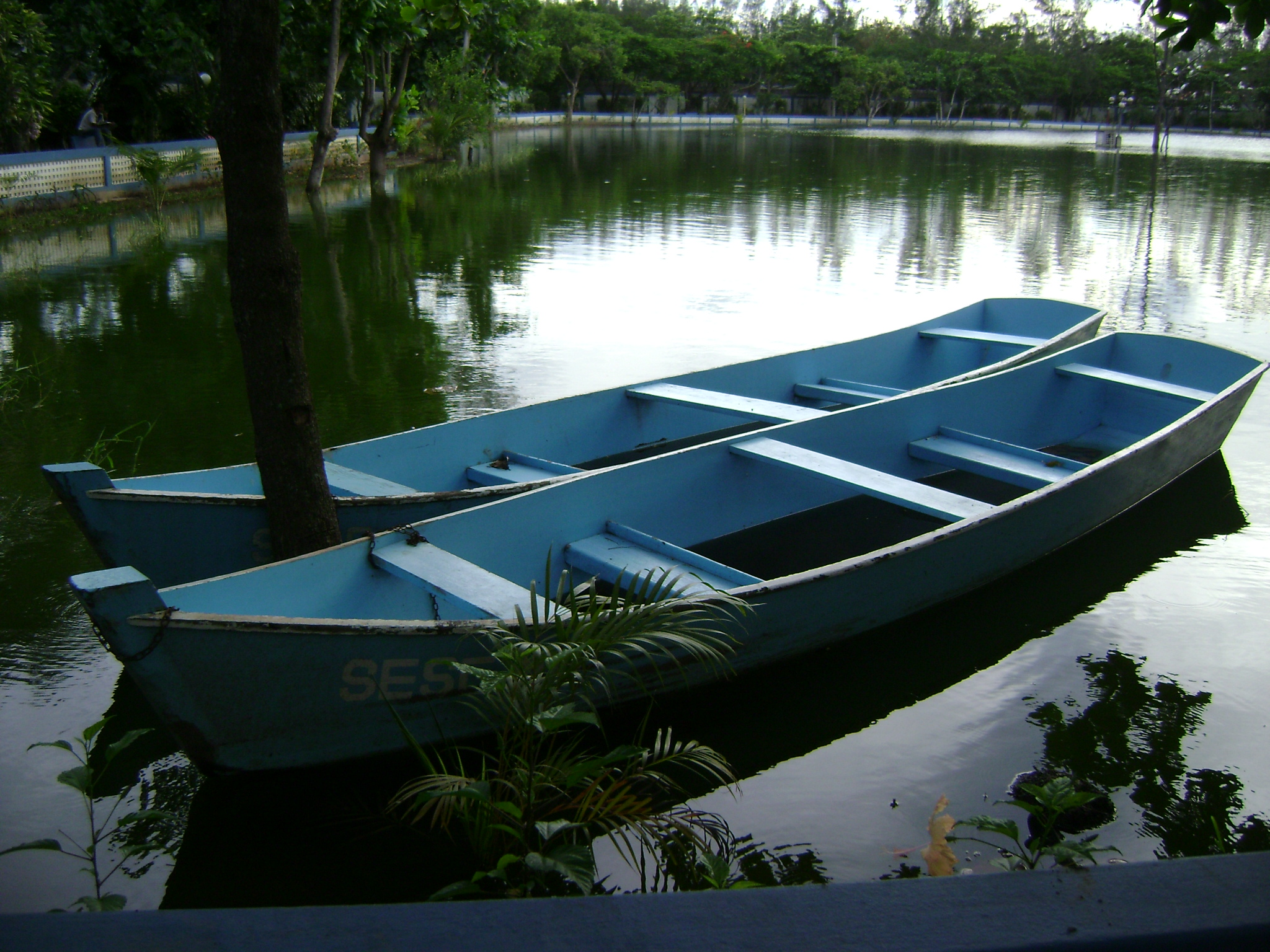 Duas canoas em Grussaí (São João da Barra), estado do Rio de Janeiro.